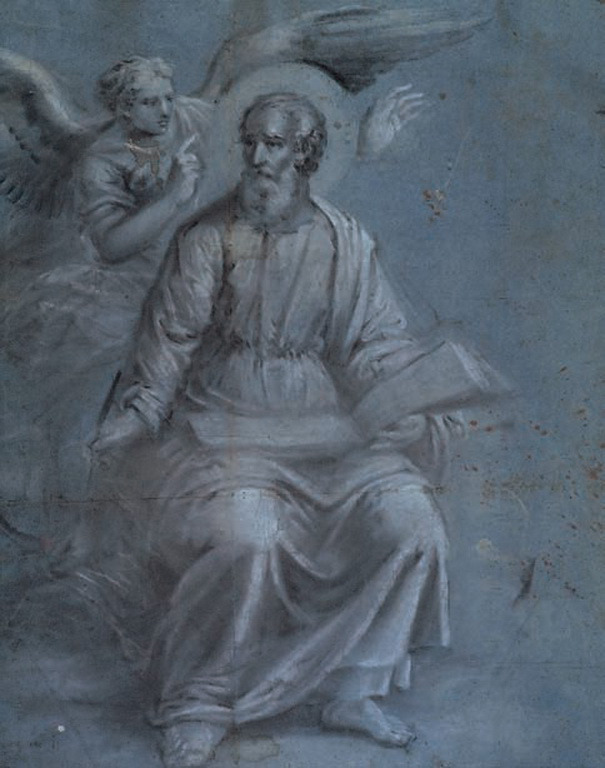 Evangelist and angel Saint Matthew the Evangelist